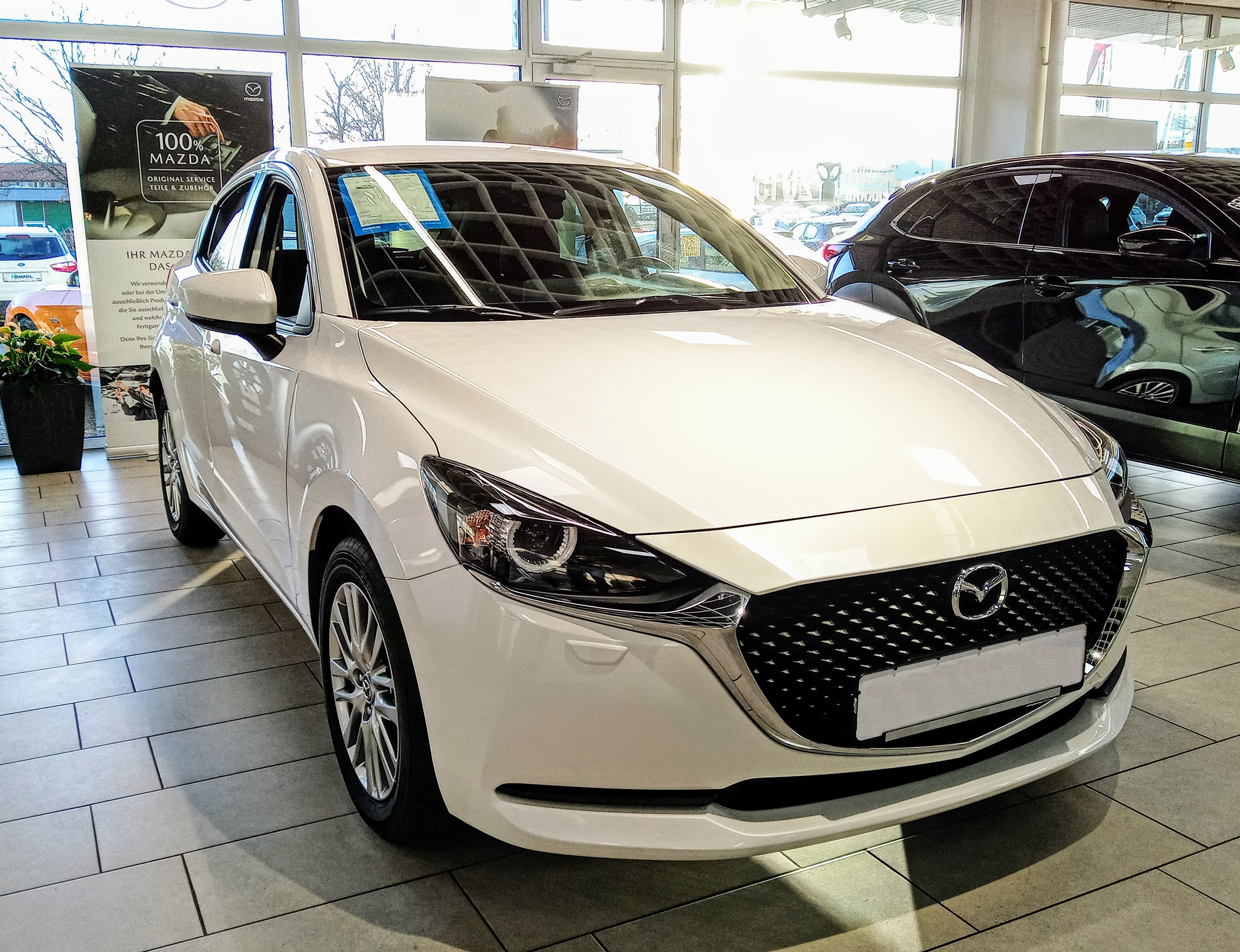 A new Mazda2 at a Mazda dealership in Germany